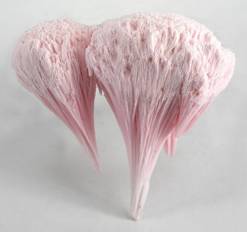 Kutnohorite Locality: Wessels Mine (Wessel's Mine), Hotazel, Kalahari manganese fields, Northern Cape Province, South Africa (Locality at ) A dramatic cluster of two kutnahorite clusters, richly pink and sharply tapered! Complete and 3-dimensional, 360 degrees! 6.2 x 6.1 x 3.8 cm